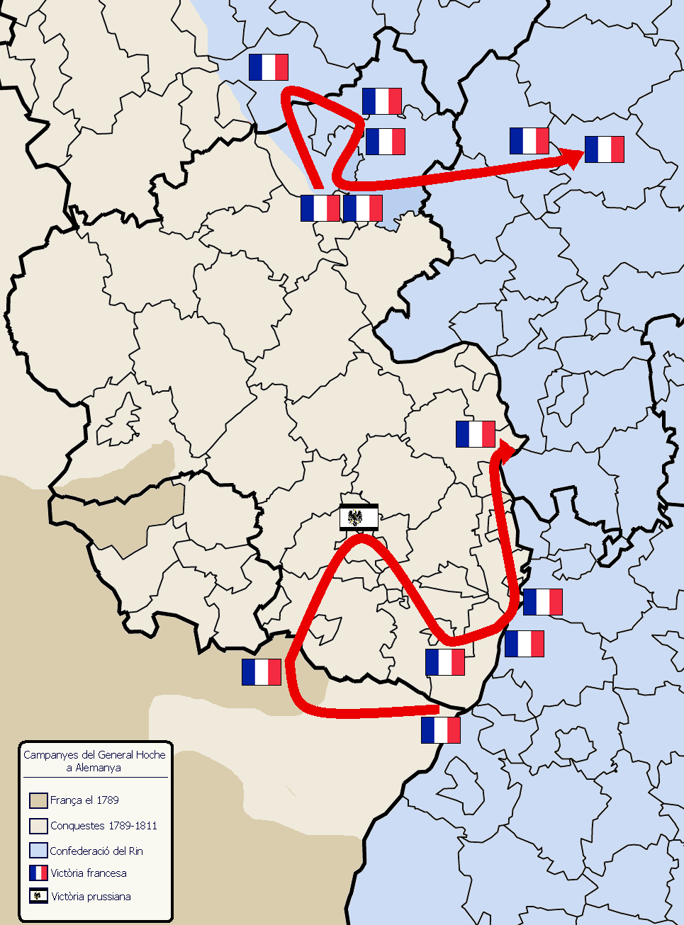 campaigns of general Hoche in germany